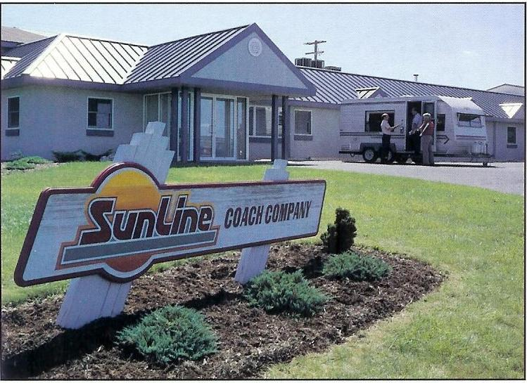 Factory Headquarters in 1991/1992